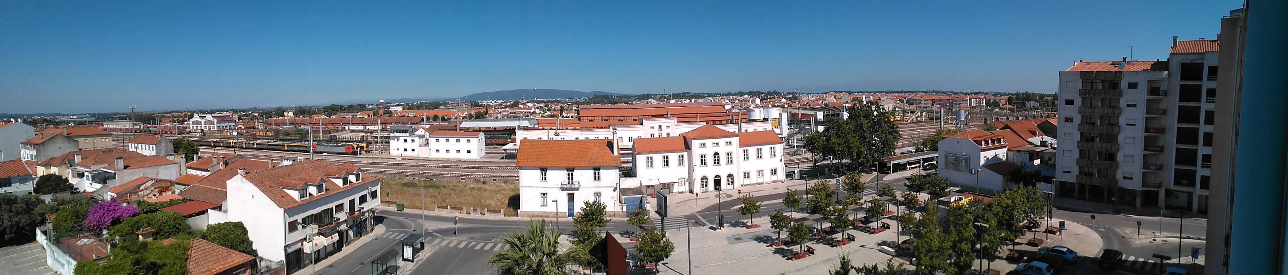 Republic Square and the train station, seen from Hotel Gameiro; Entroncamento, Portugal